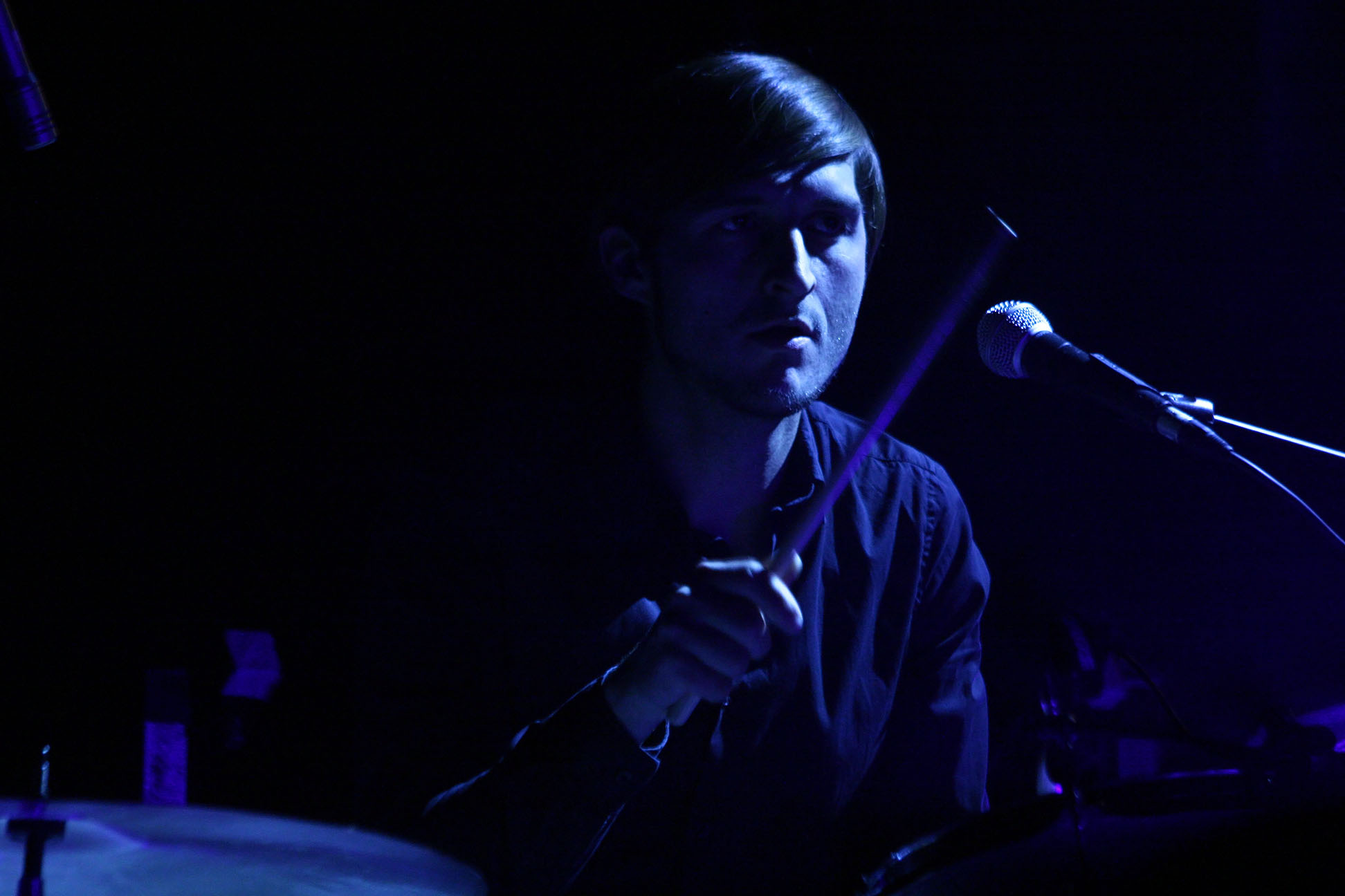 Violetta Parisini with Florian Cojocaru and Alex Pohn - concert at the cultural center WUK in Vienna.